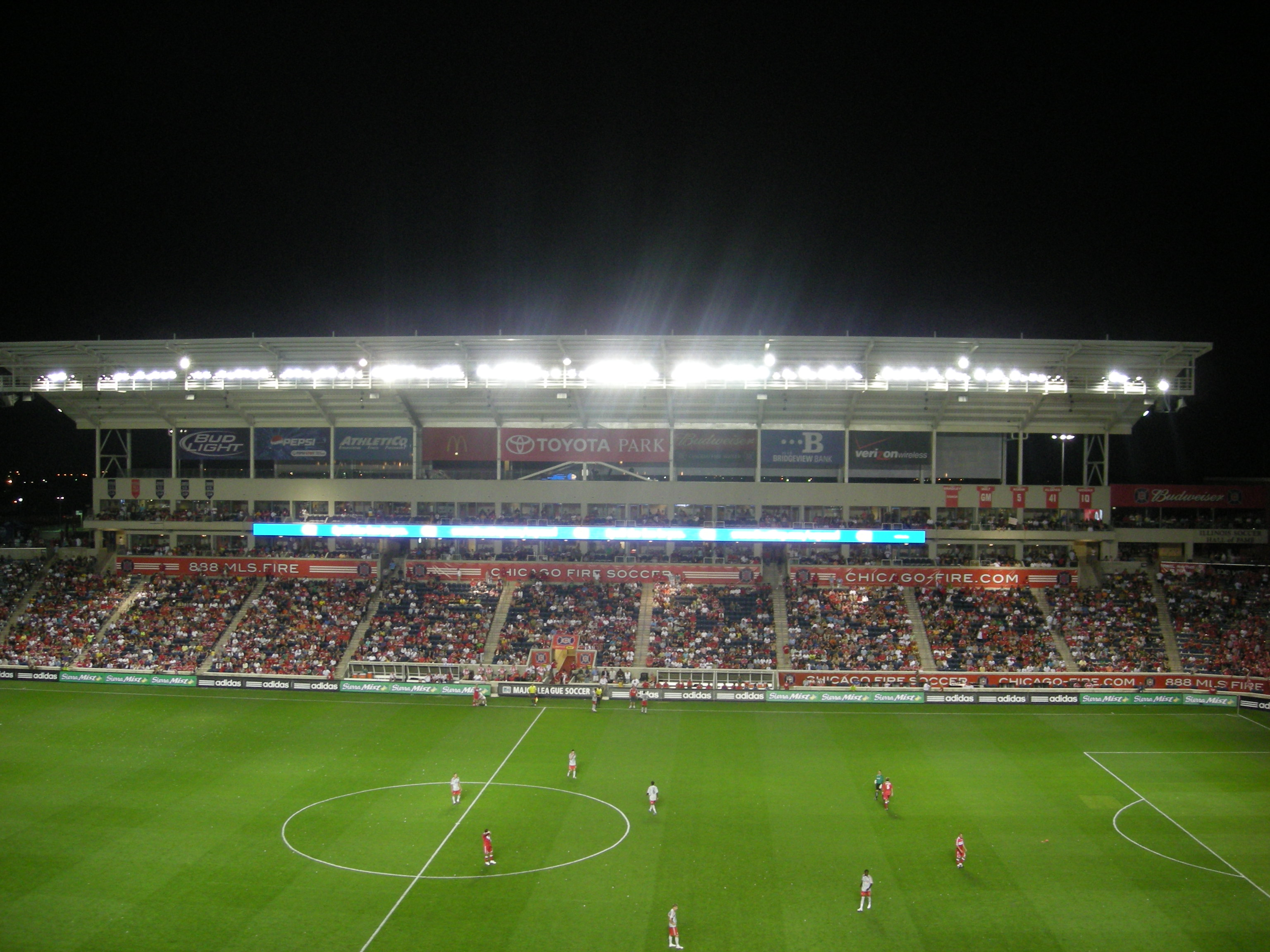 In-game action during the match between the Chicago Fire and Toronto FC at Toyota Park in Bridgeview, Illinois (United States).